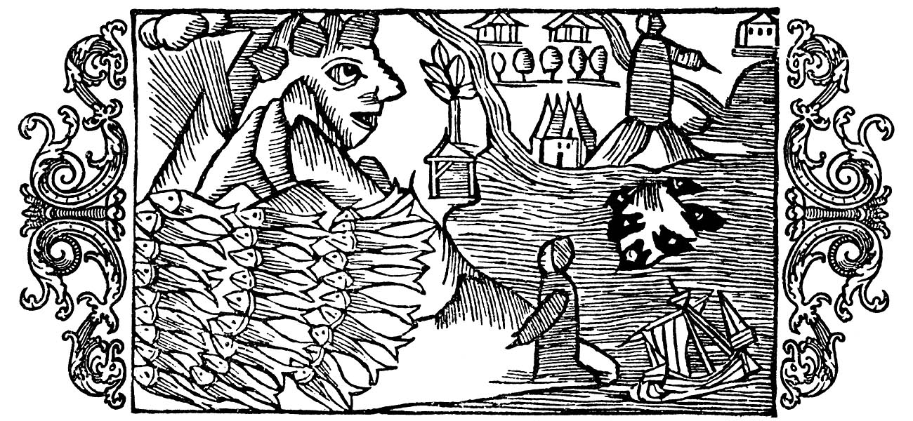 To the left is the cliff of Bjuröklubb, the most eastern part of the province of Västerbotten. Olaus Magnus described the top of the cliff seen from distance as a crown with three points. Around the cliff are flat rocks where fish are dried, which also is seen on the woodcut. Six seals surround a small island.